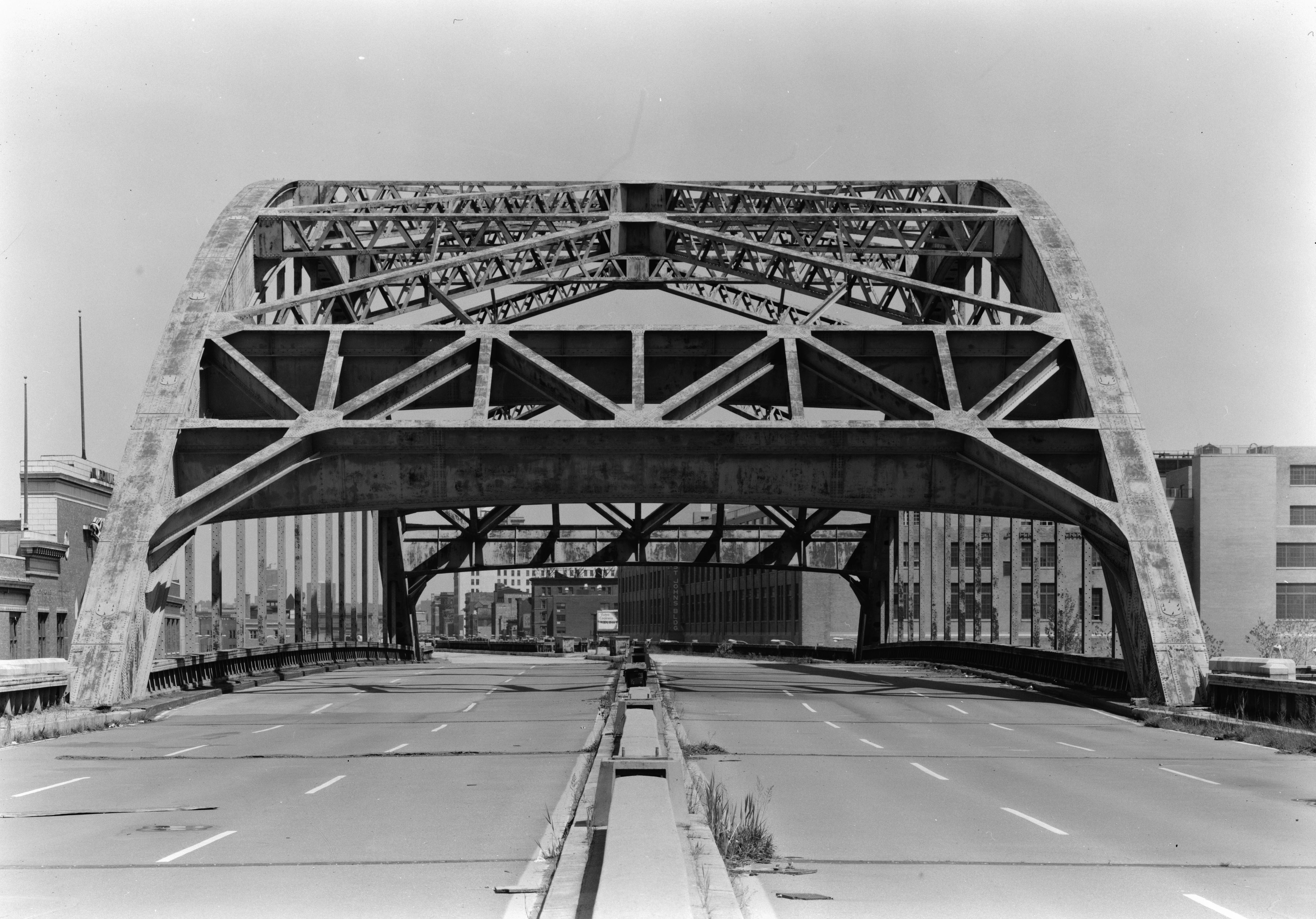 Canal St. Bridge, West Side Highway, New York - looking north.